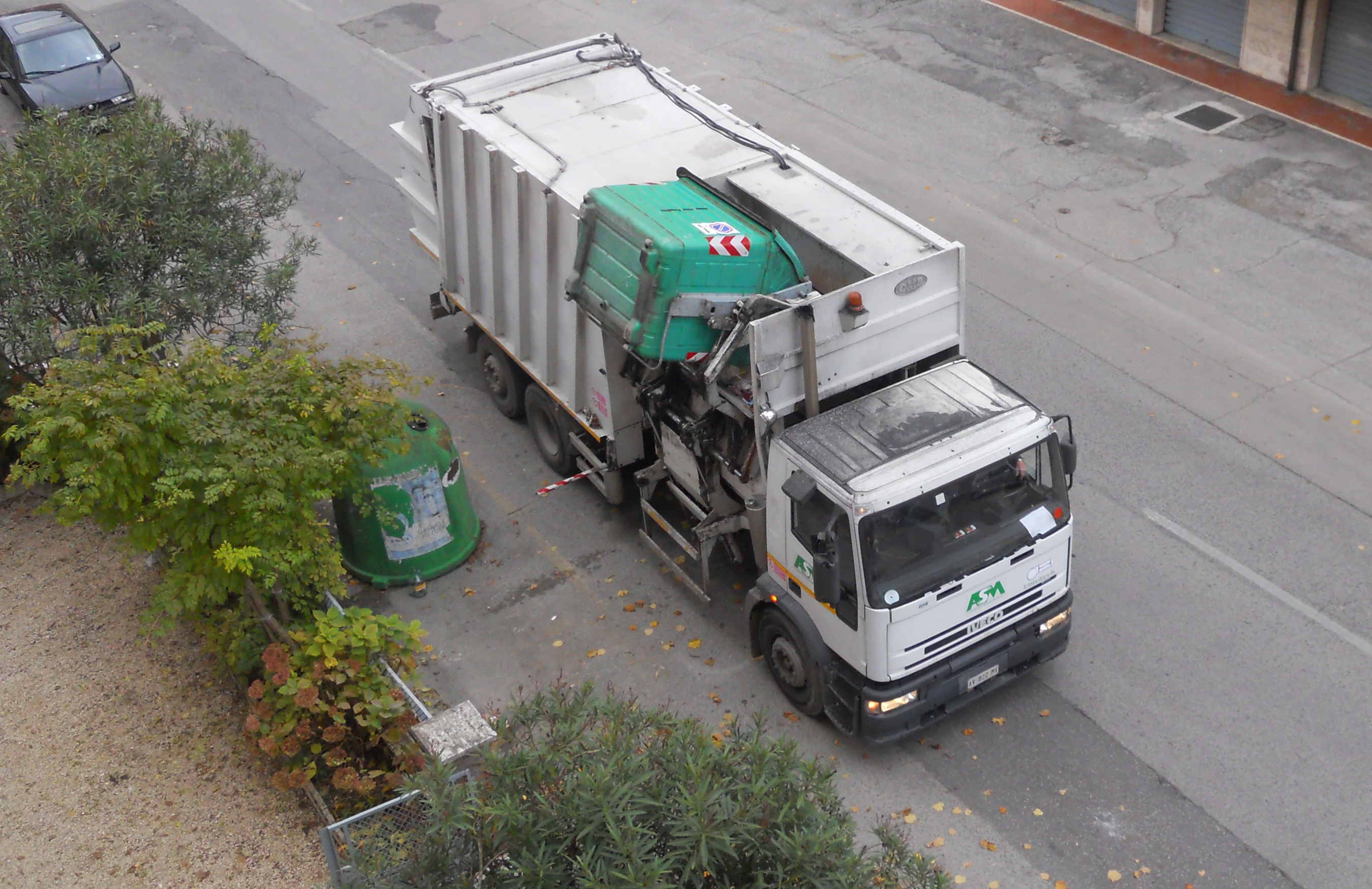 A truck for collection of undifferentiated waste empting the trash bin; Rieti, Italy. The truck was registred on October 1998 in Lazio and has a 9500 cm³, 221 kW, Euro 2 diesel engine.